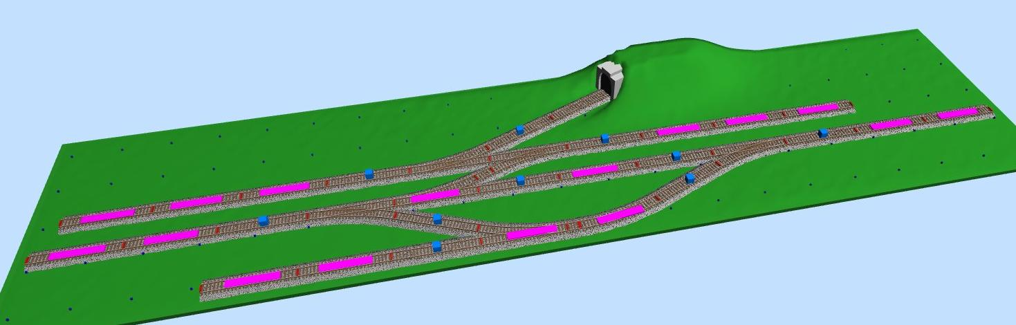 The Timesaver model railway layout track plan